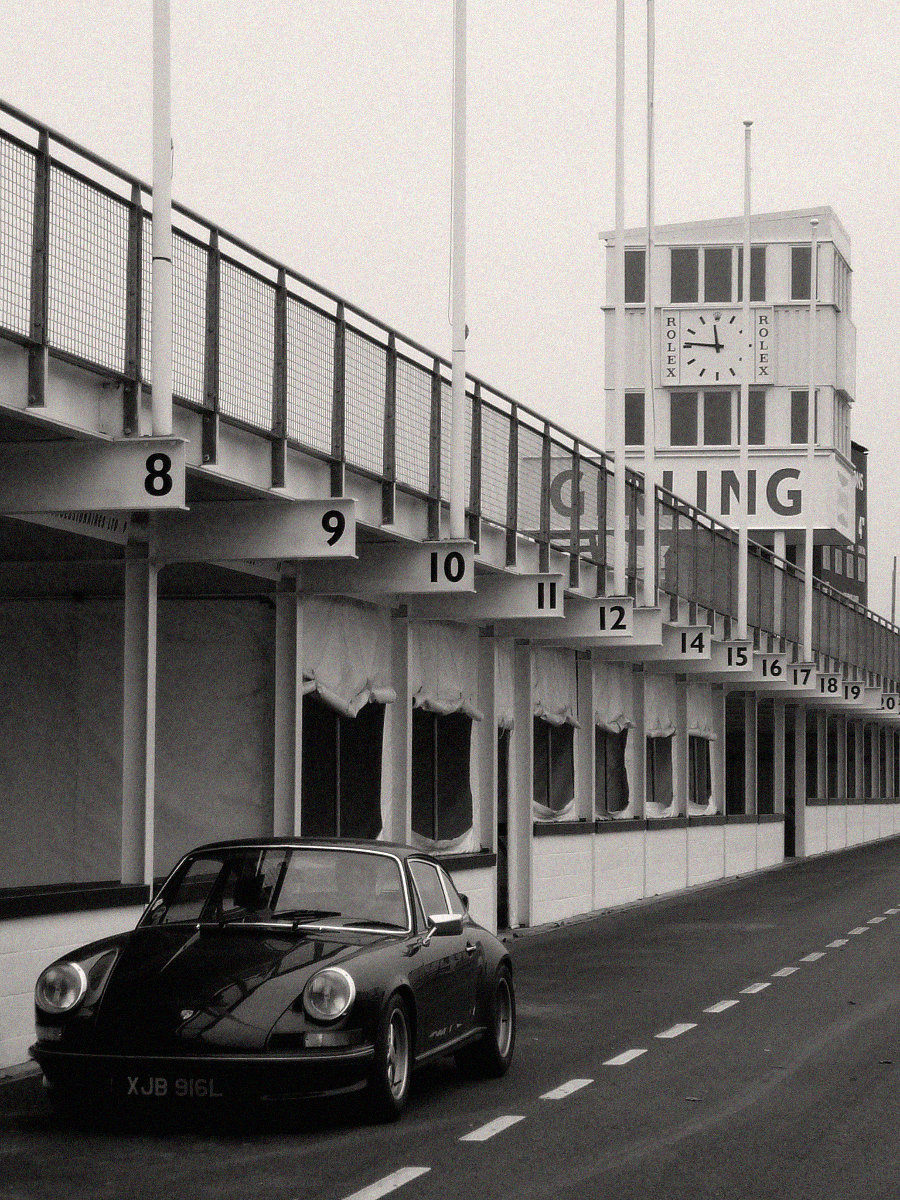 The Goodwood Circuit pits with a parked Porsche 911RS